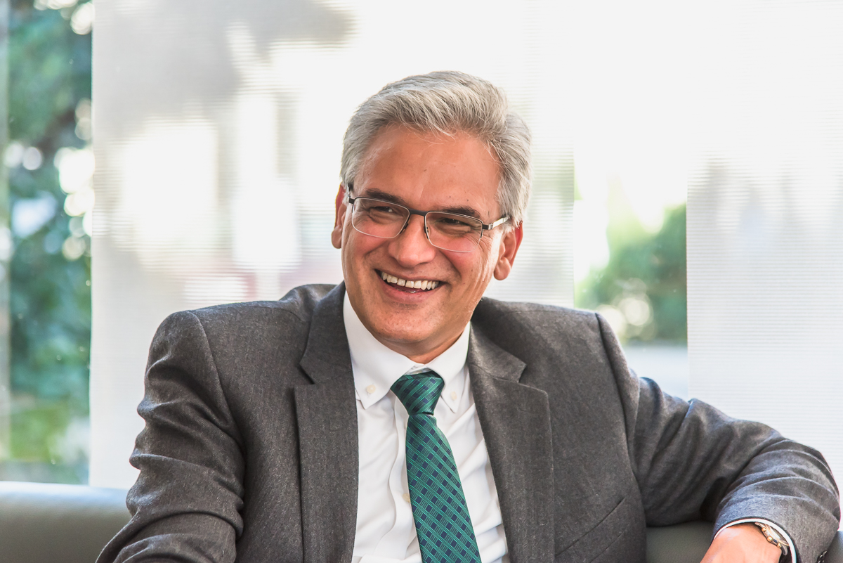 Photo from Gunter Czisch's mayoral election campaign, provided by the photographer